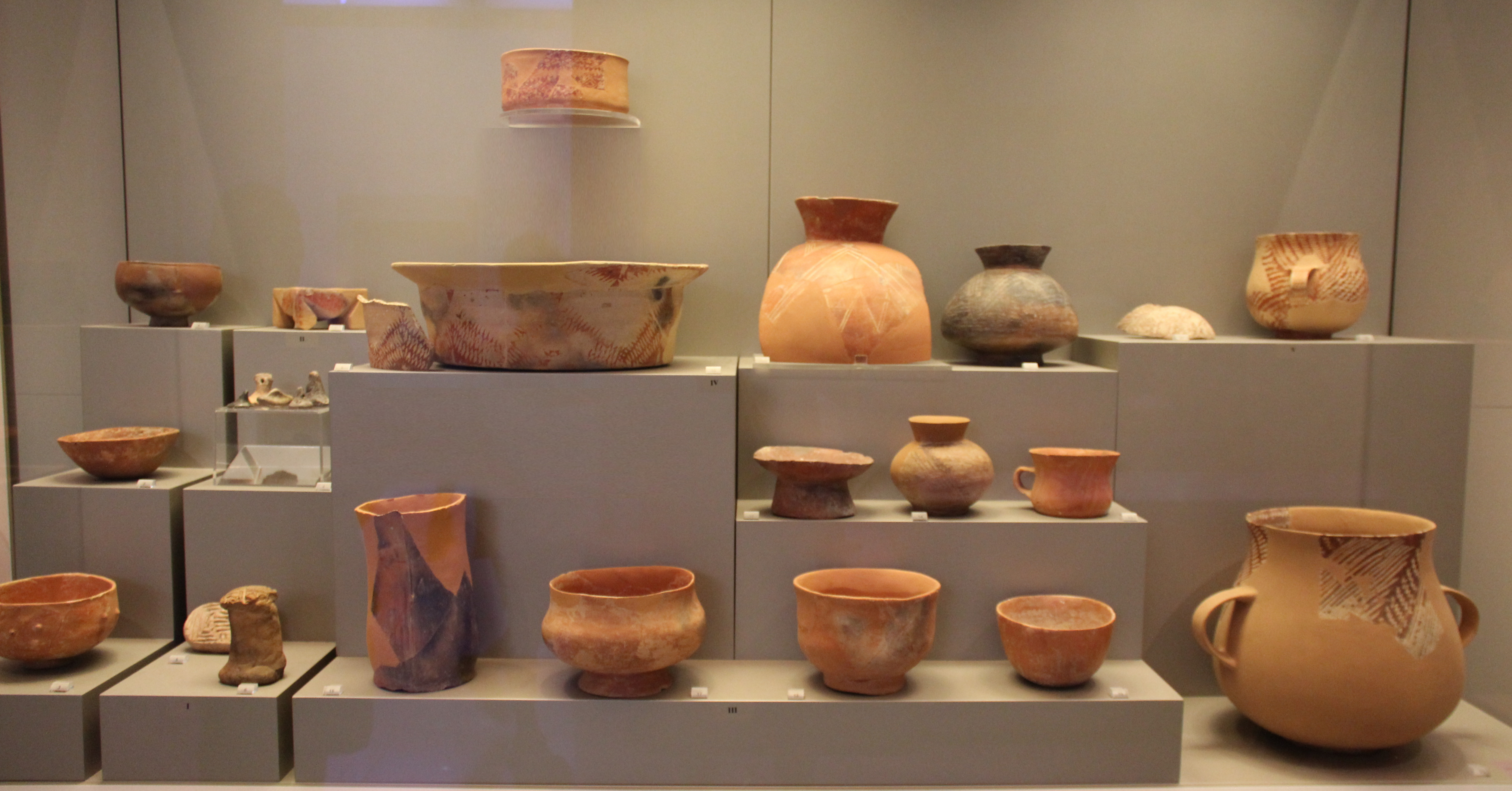 Greek Early and Middle Neolithic Pottery. Greek Prehistory Gallery, National Museum of Archaeology, Athens, Greece. Complete indexed photo collection at .